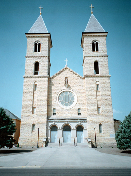 St. Fidelis Church, "The Cathedral of the Plains" (front view), Victoria, Kansas, USA.